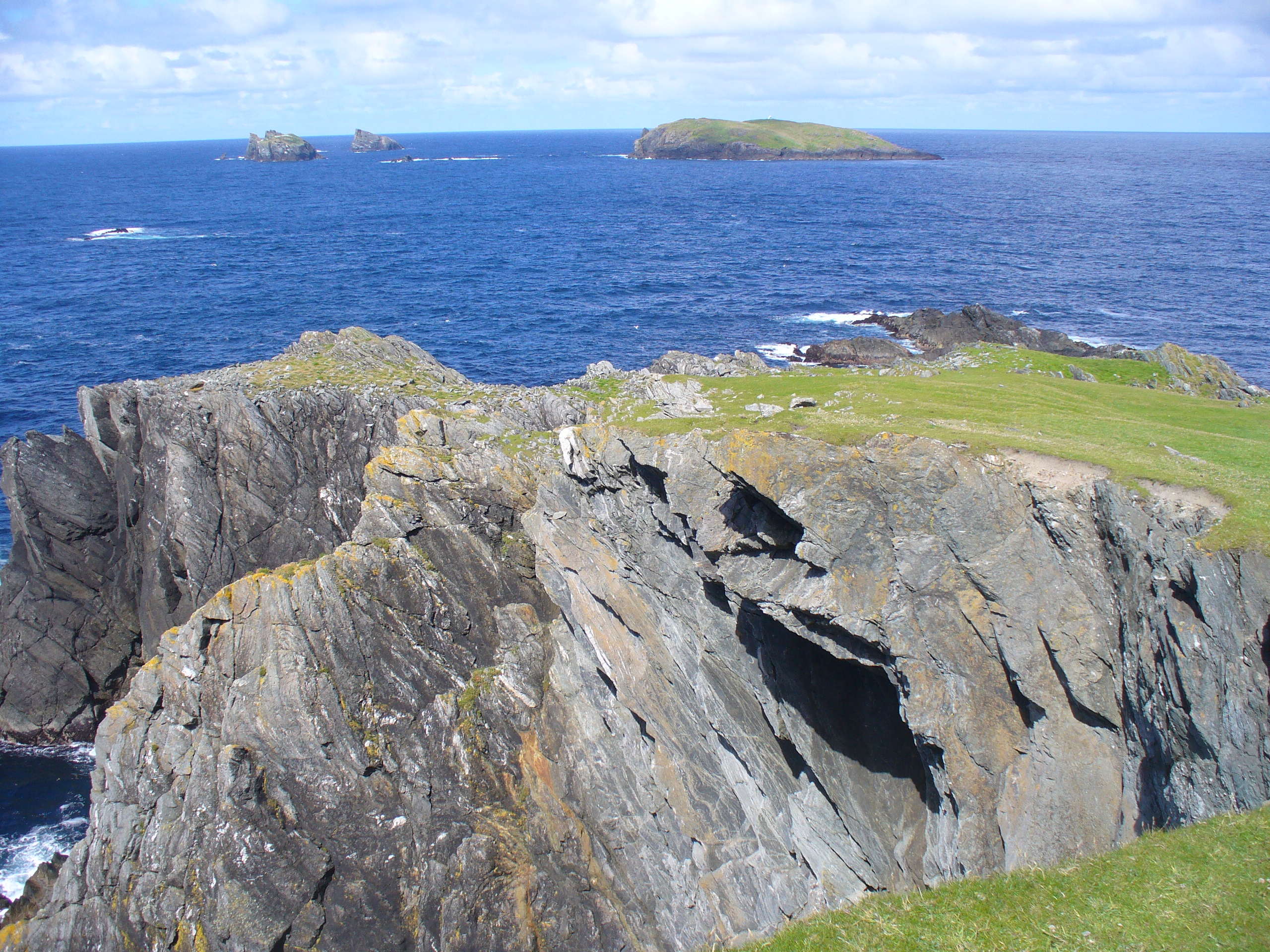 The Point of Fethaland. View northward towards the isle of Gruney and the Ramna Stacks.